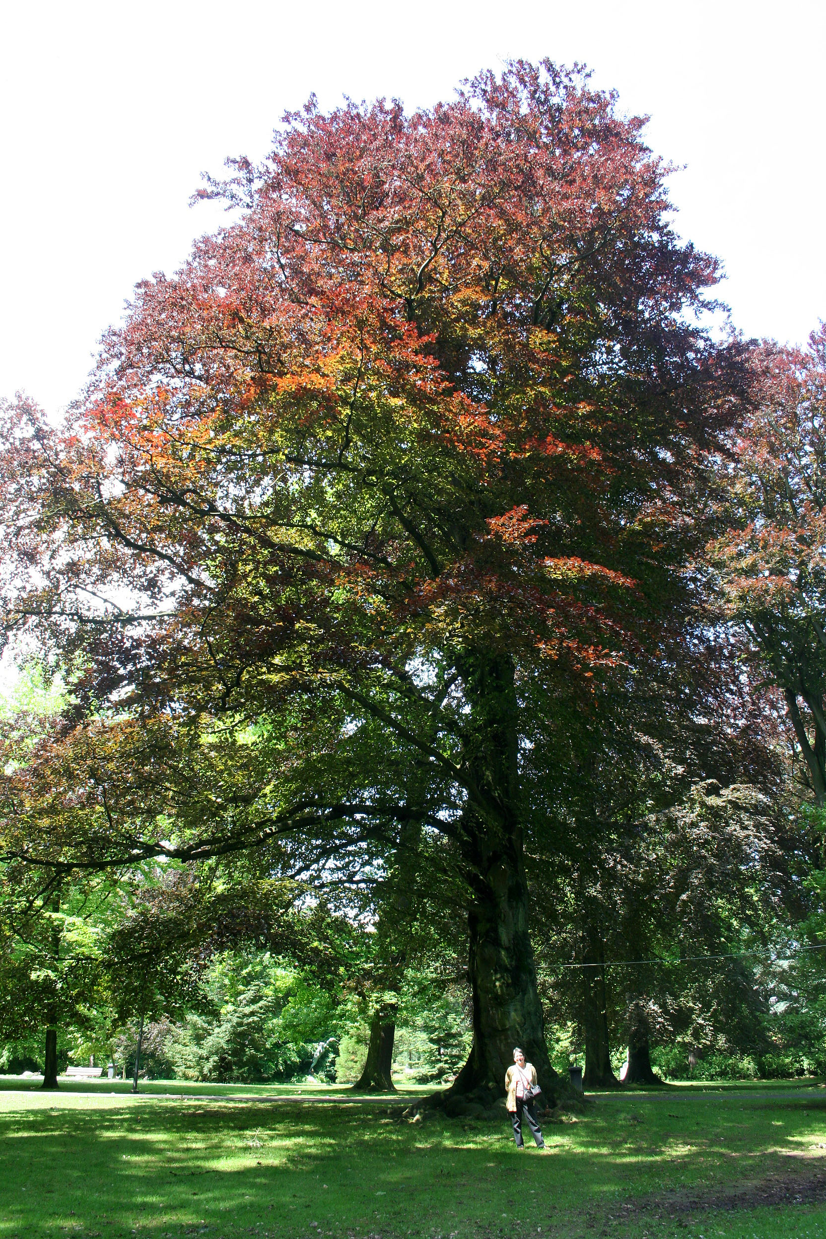 Morlanwelz (Belgium), the park (arboretum) Dark Purple European beech (Fagus sylvatica "Atropunicea").